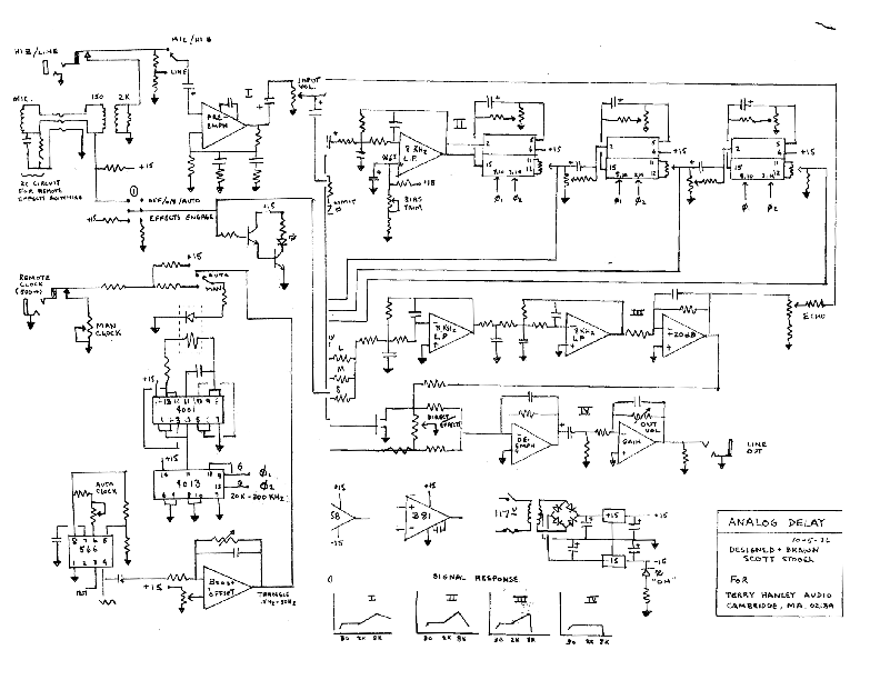 "Analog Delay" Design for first battery powered analog delay effects for guitars. Hanley Audio - Scott Stogel Cambridge MA 10/1976